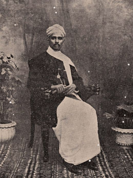 N. M. Venkatasami Nattar (1884 - 1944), Indian Tamil scholar